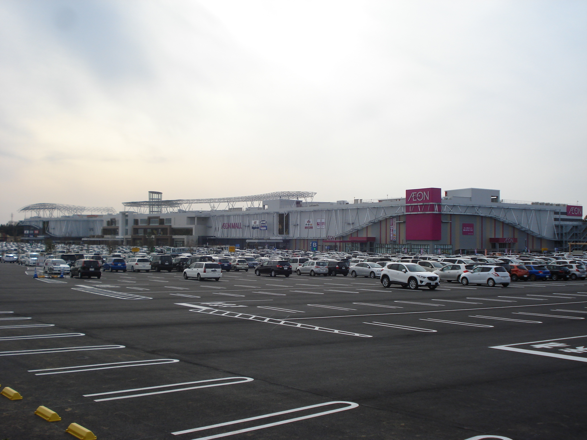 AEON MALL Tsukuba mall building outside (Tsukuba, Ibaraki)